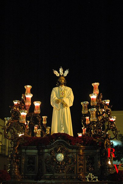 Ntro. Padre Jesús del Cautivo.